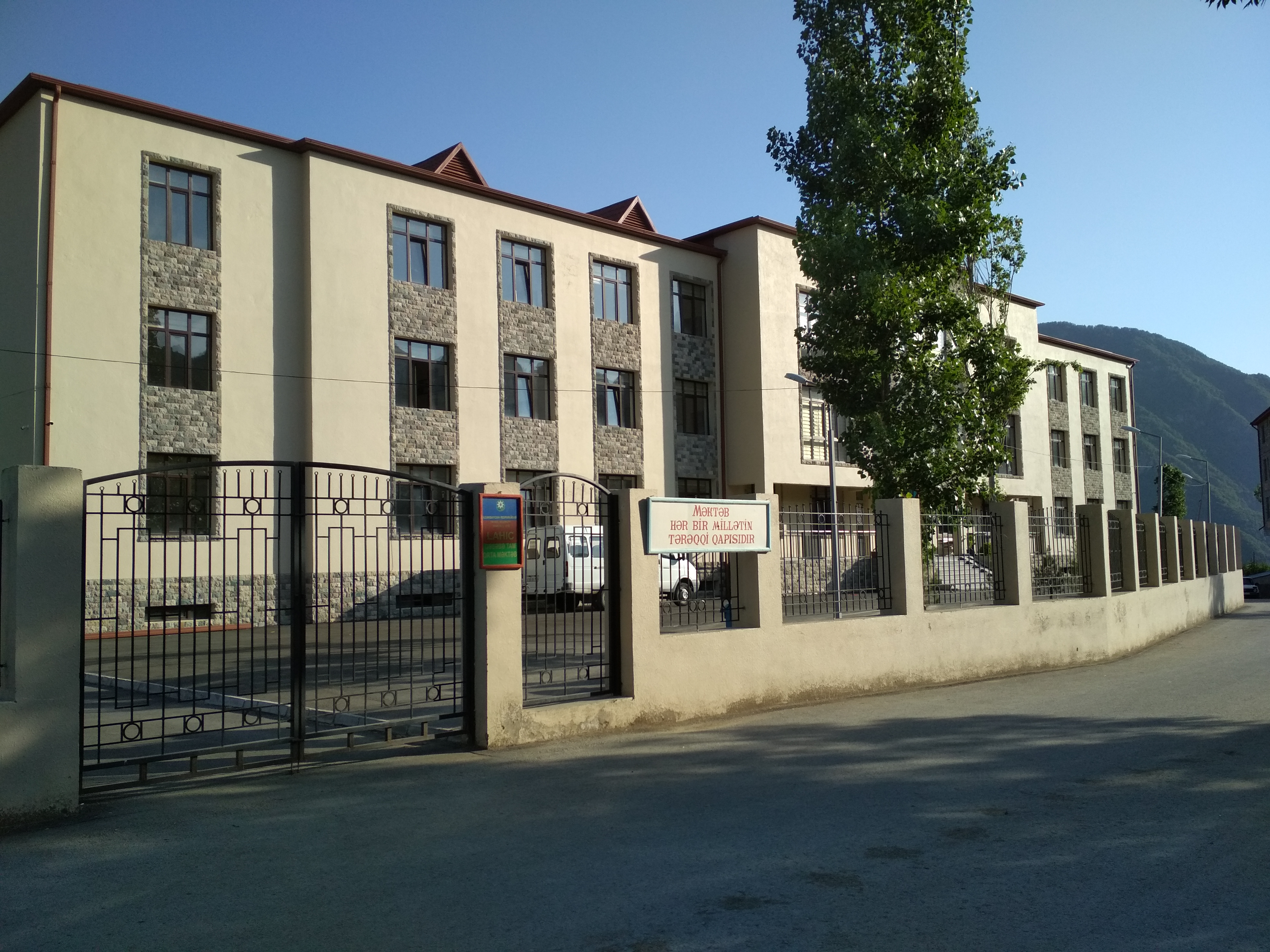 School in Lahij